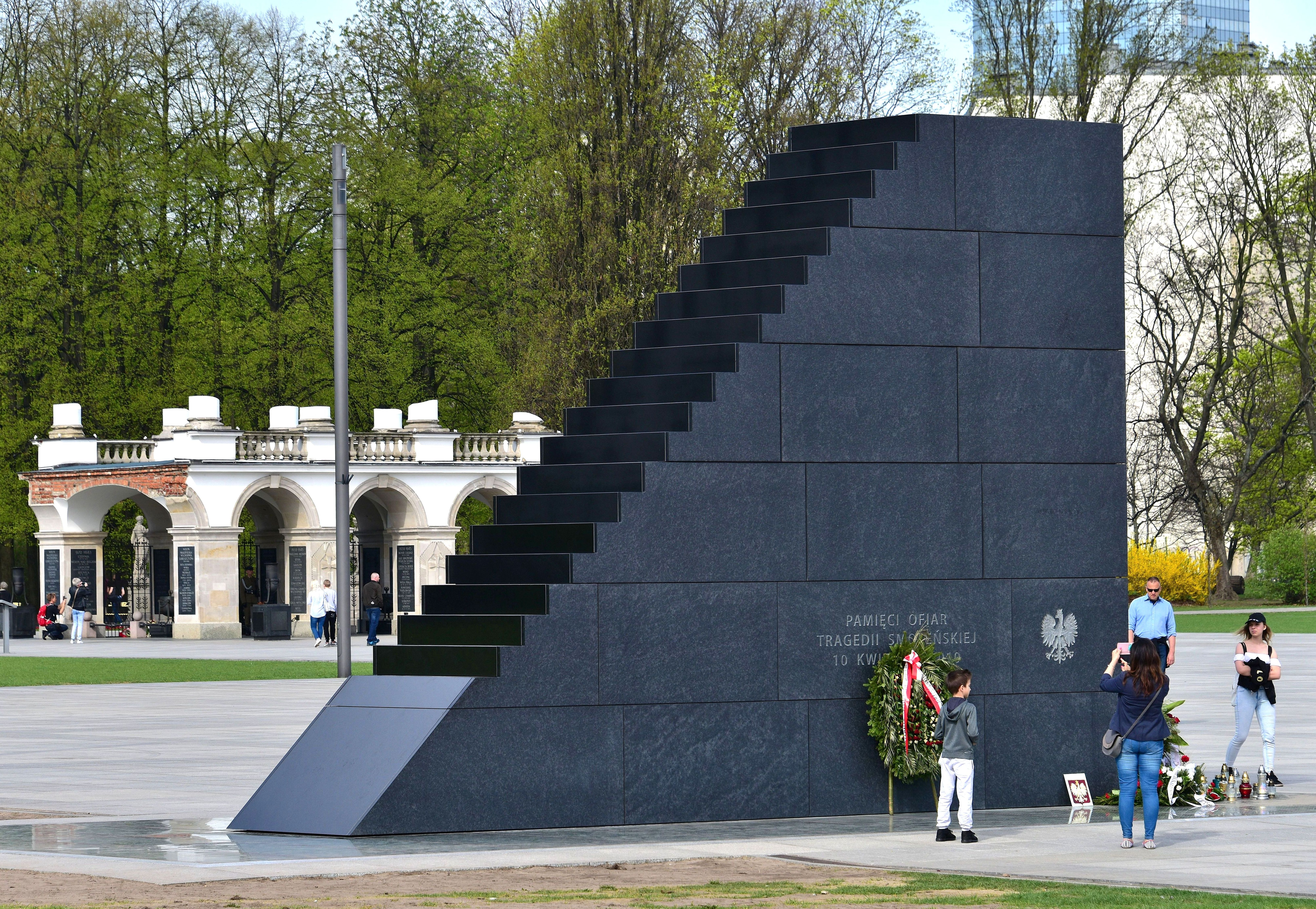 Monument to the Victims of 2010 Smolensk Tragedy in Warsaw